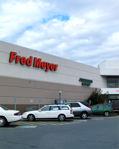 A photo I took of a Washington Fred Meyer in Marysville.